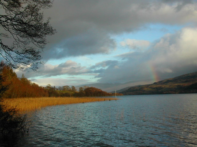 Loch Tay Looking east along the south shore of Loch Tay. (Feb 4th 2007)